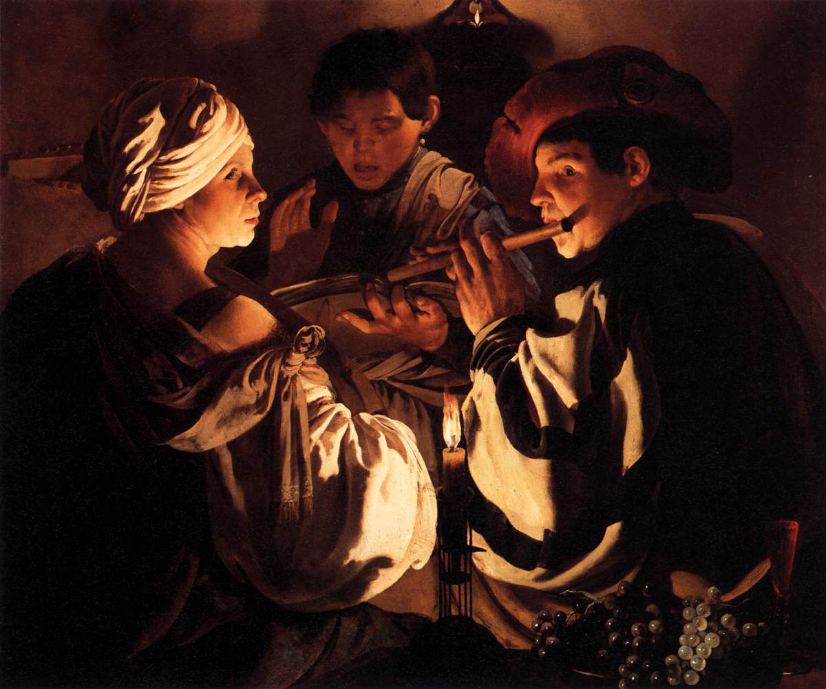 The Concert